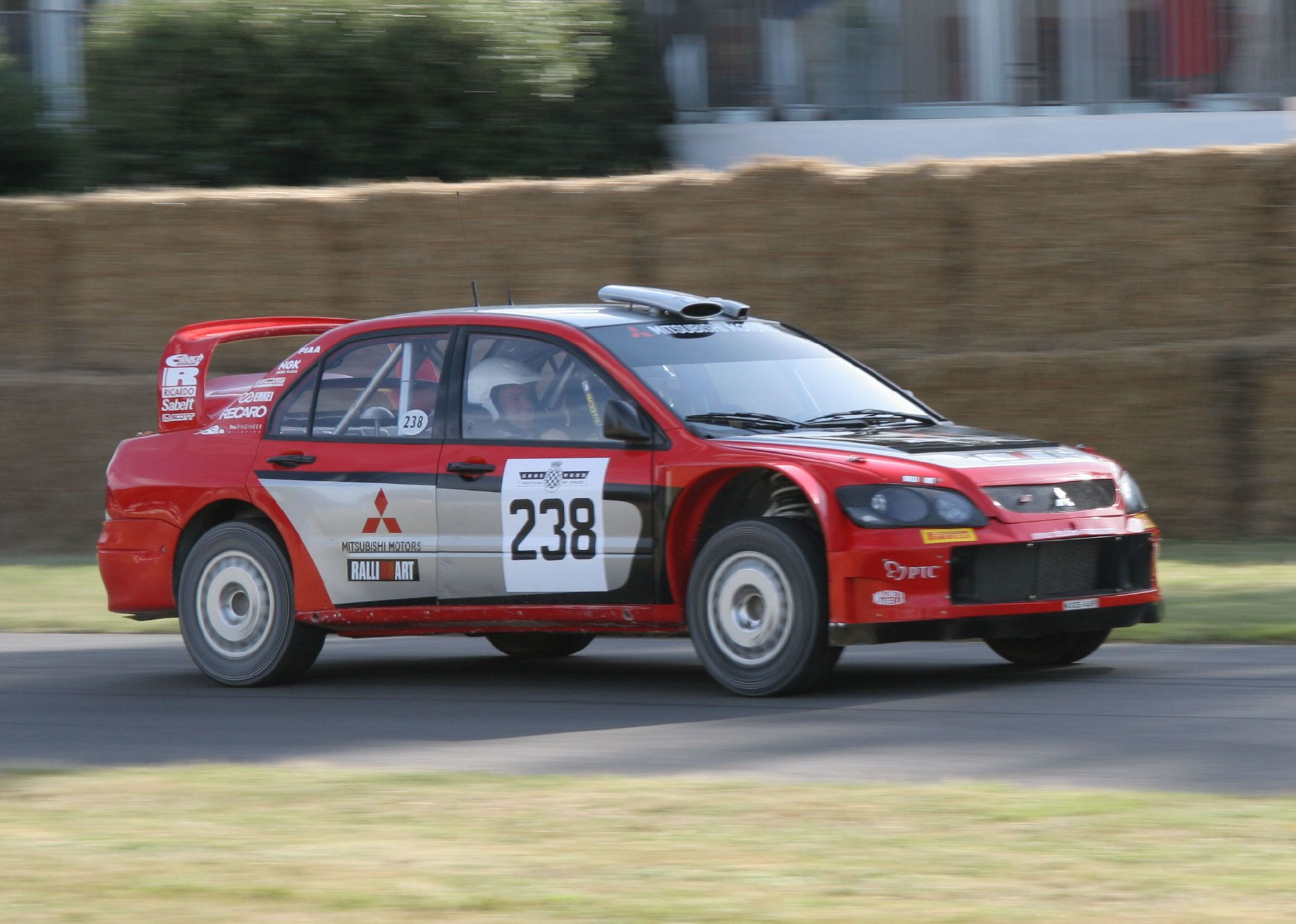 2006 Mitsubishi Lancer Evolution WRC at the 2006 Goodwood Festival of Speed